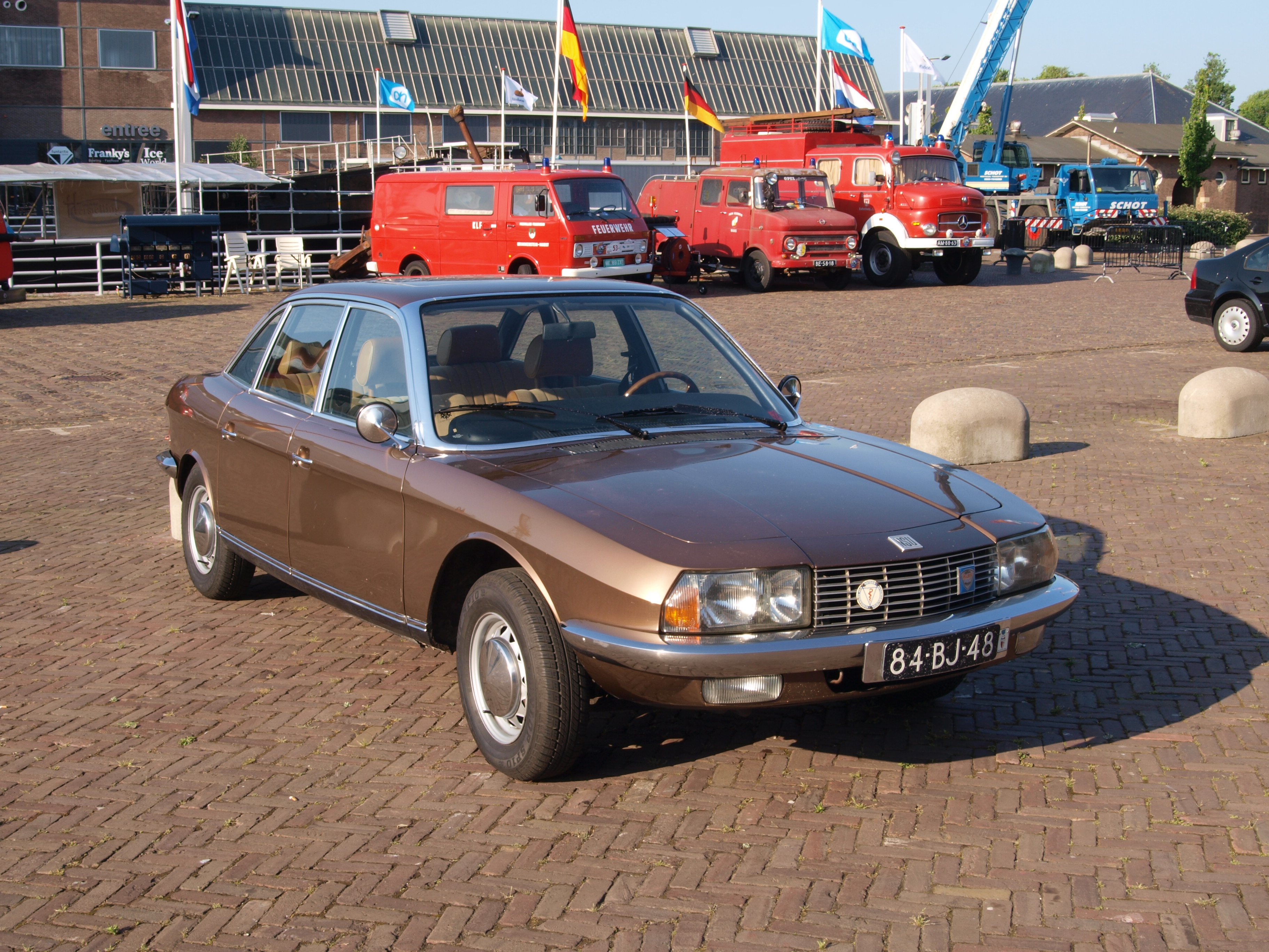 Photographed at Den Helder, The Netherlands. OLYMPUS DIGITAL CAMERA